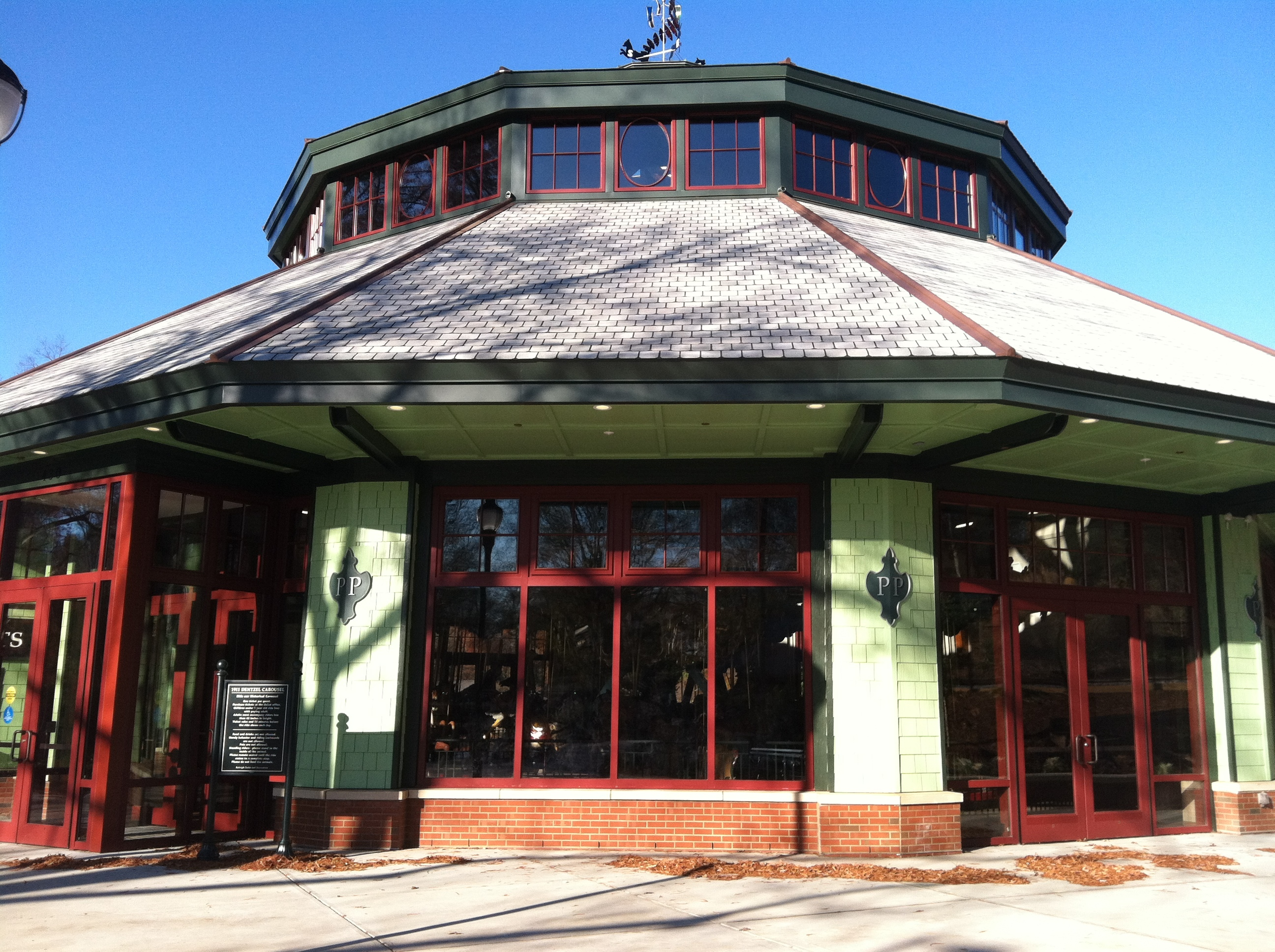 Pullen Park carousel building